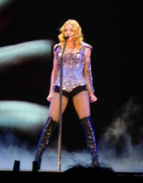 This is a retouched picture, which means that it has been digitally altered from its original version. Modifications: cropping. The original can be viewed here: OliverMadonnaFrozen.jpg. Modifications made by Legolas2186.